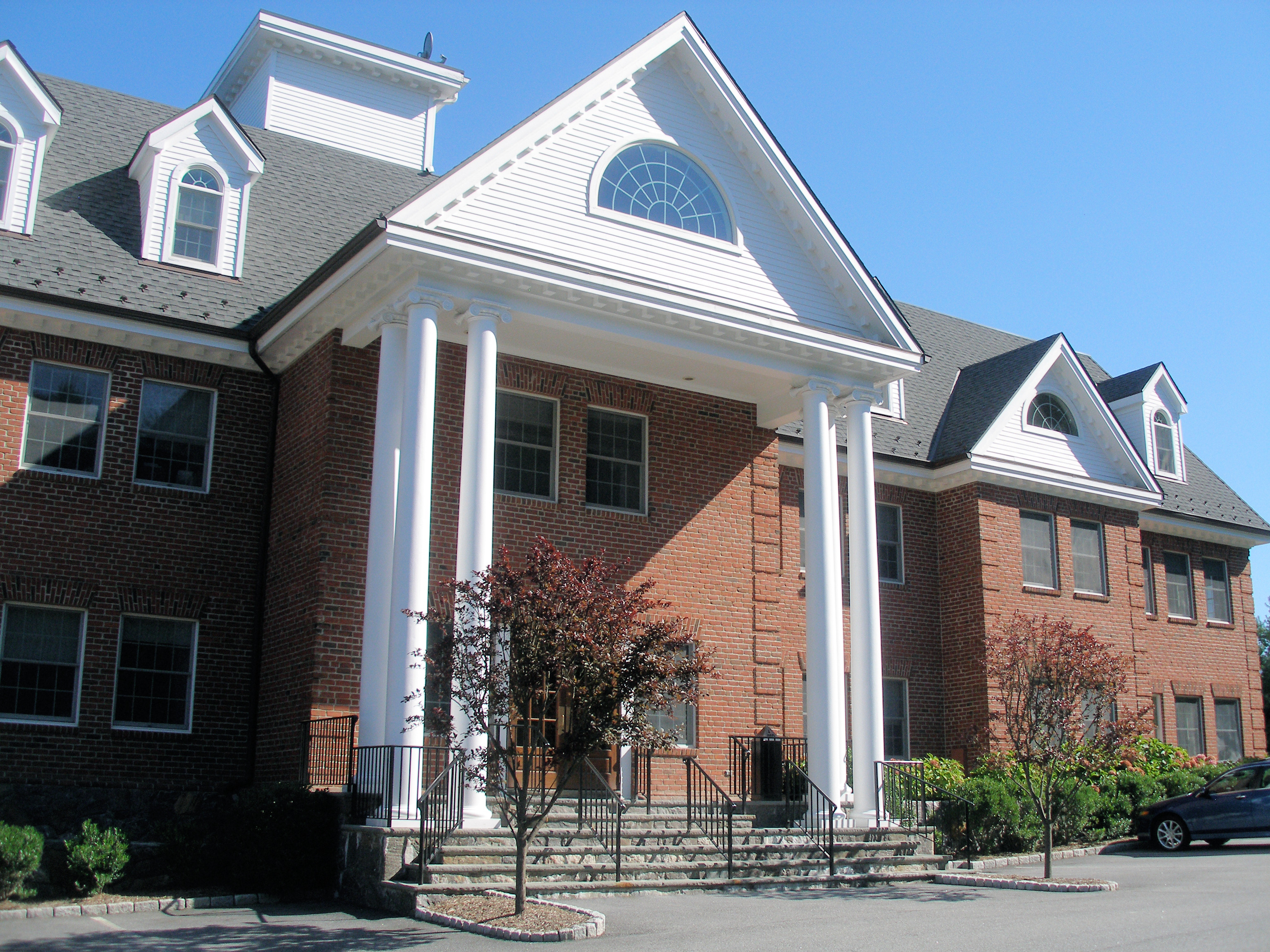 The headquarters of David Boies' law firm, Boies, Schiller & Flexner LLP, in Armonk, New York.